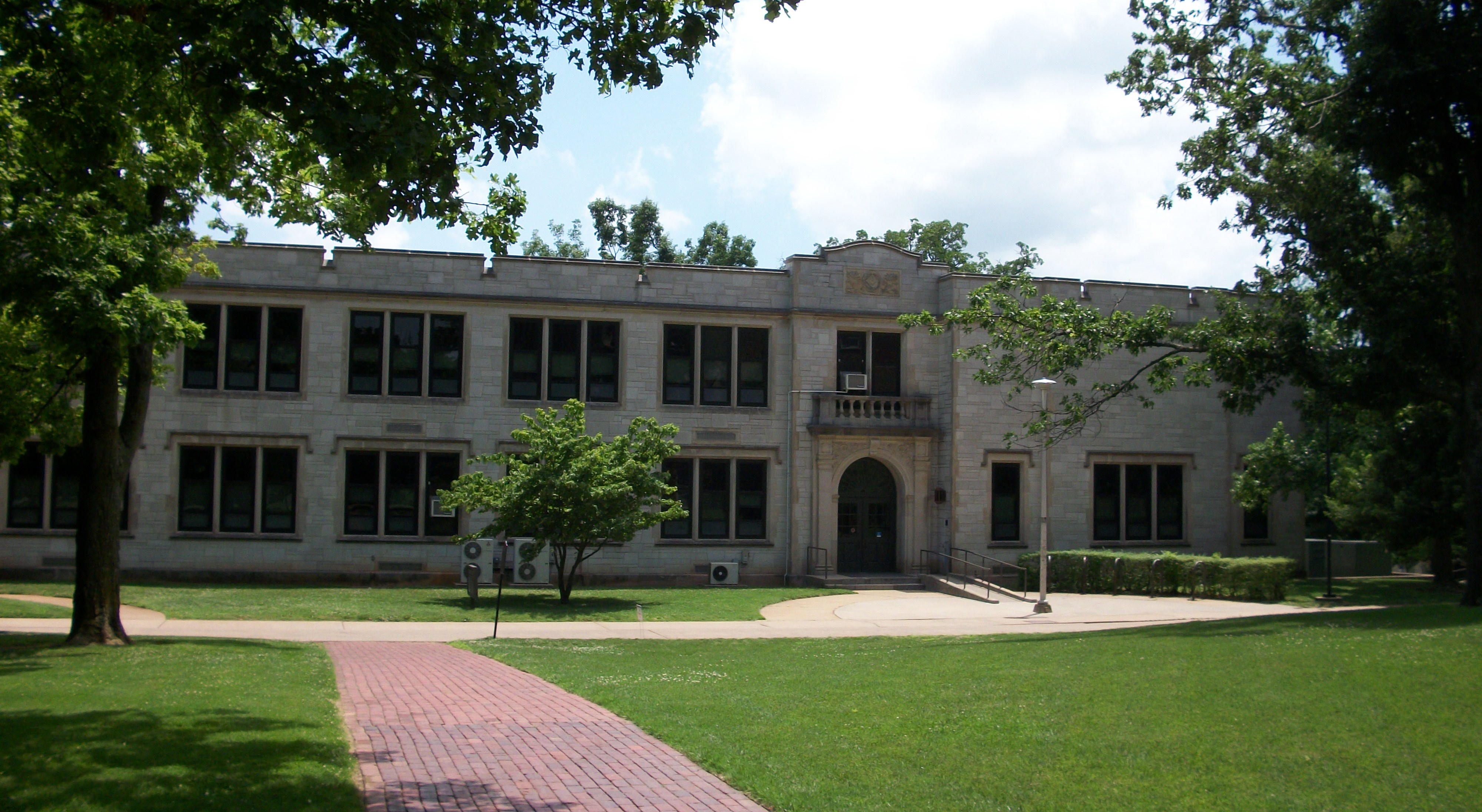 Ozark Hall at the University of Arkansas. The building is listed on the National Register of Historic Places.